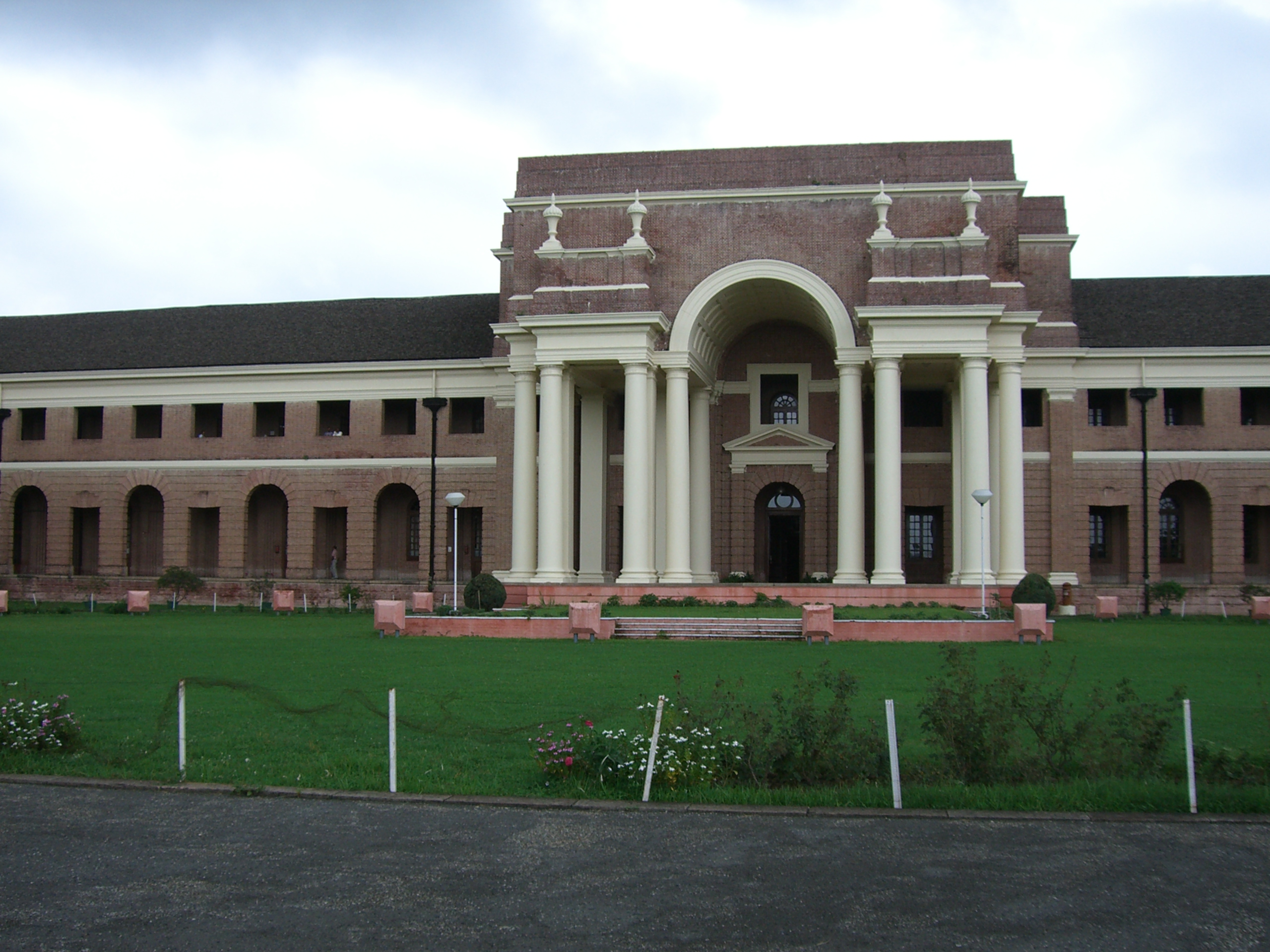 Forest Research Institute, Dehradun, Uttarakhand, India